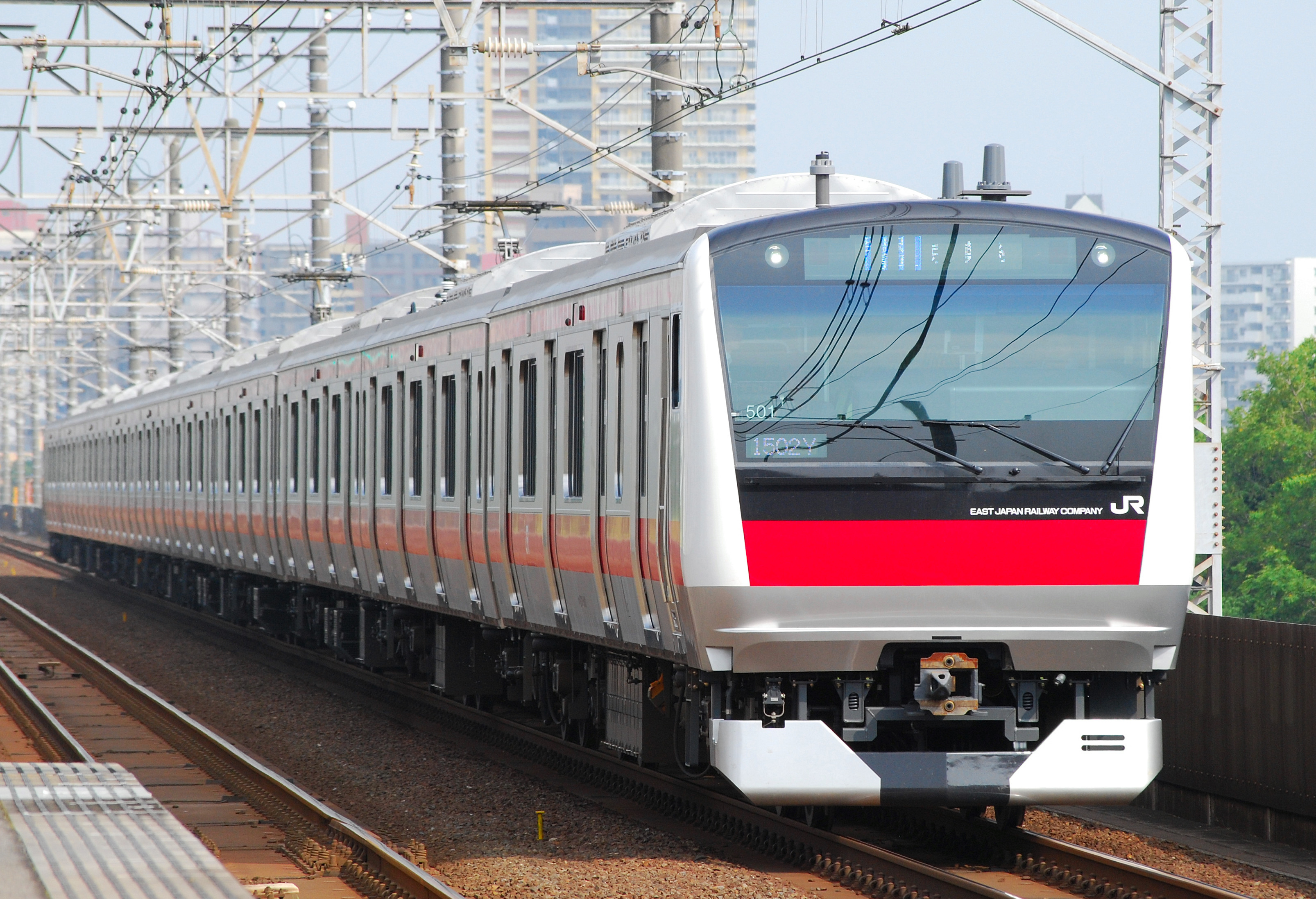 JR East E233-5000 series 10-car EMU set 501 passing Kemigawahama Station on a Keiyo Line rapid service